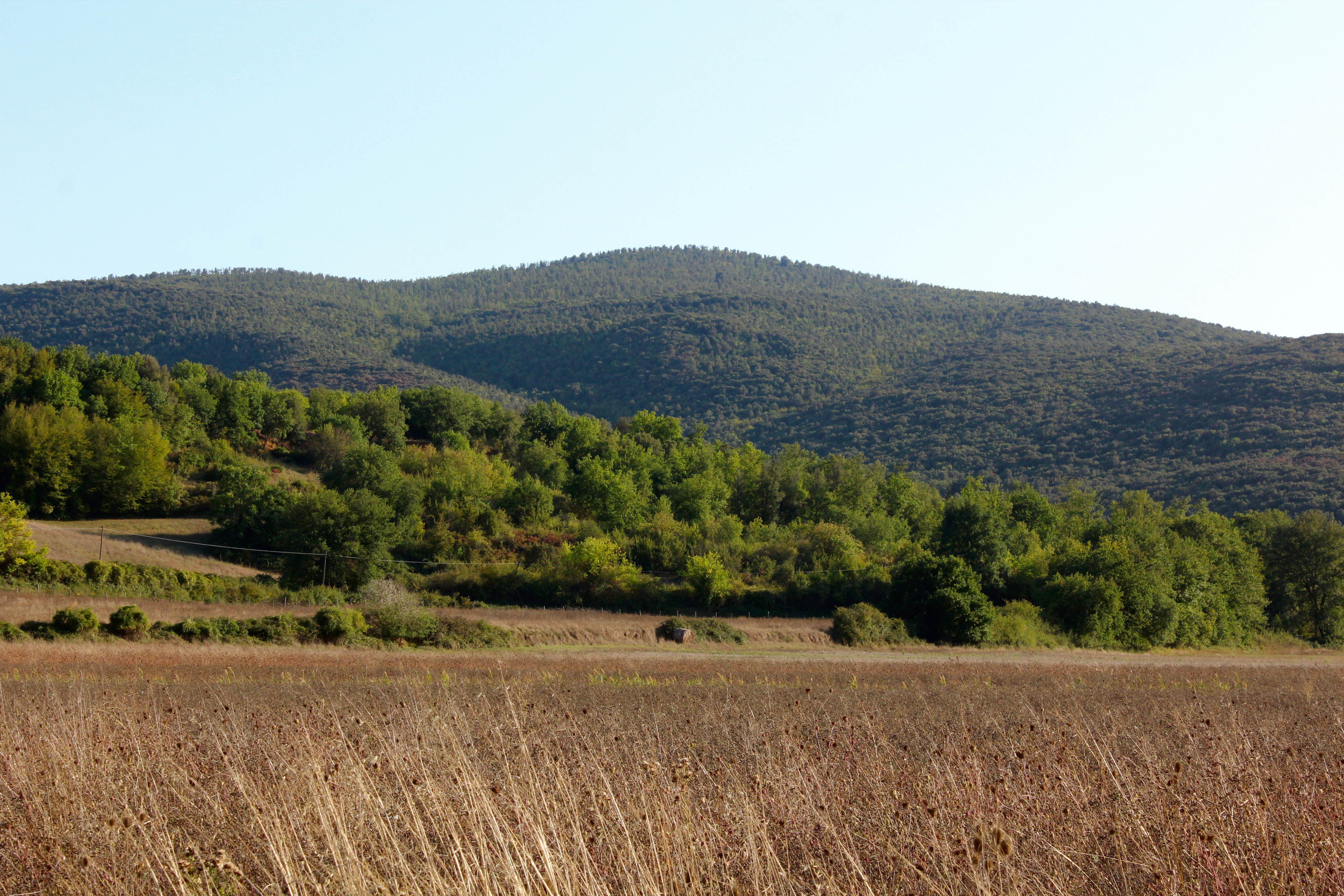 Mountain Montemaggio (also: Monte Maggio), Montagnola Senese, Province of Siena, Tuscany, Italy